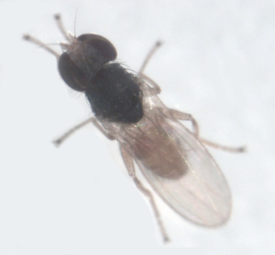 live adult Zealantha thorpei